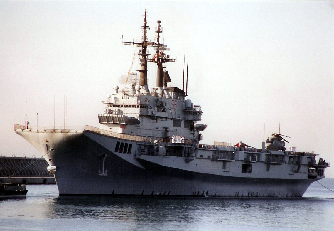 Italian aircraft carrier Garibaldi